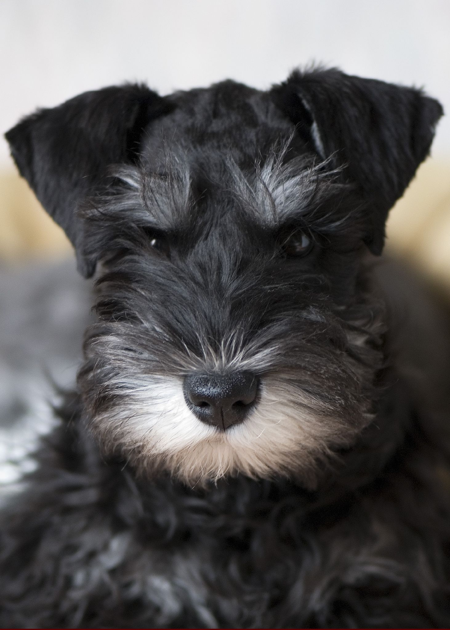 A black-and-silver Miniature Schnauzer puppy named Rainy.